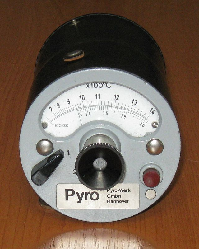 Infrared pyrometer "Pyro", Pyro-Werk GmbH, Hanover.